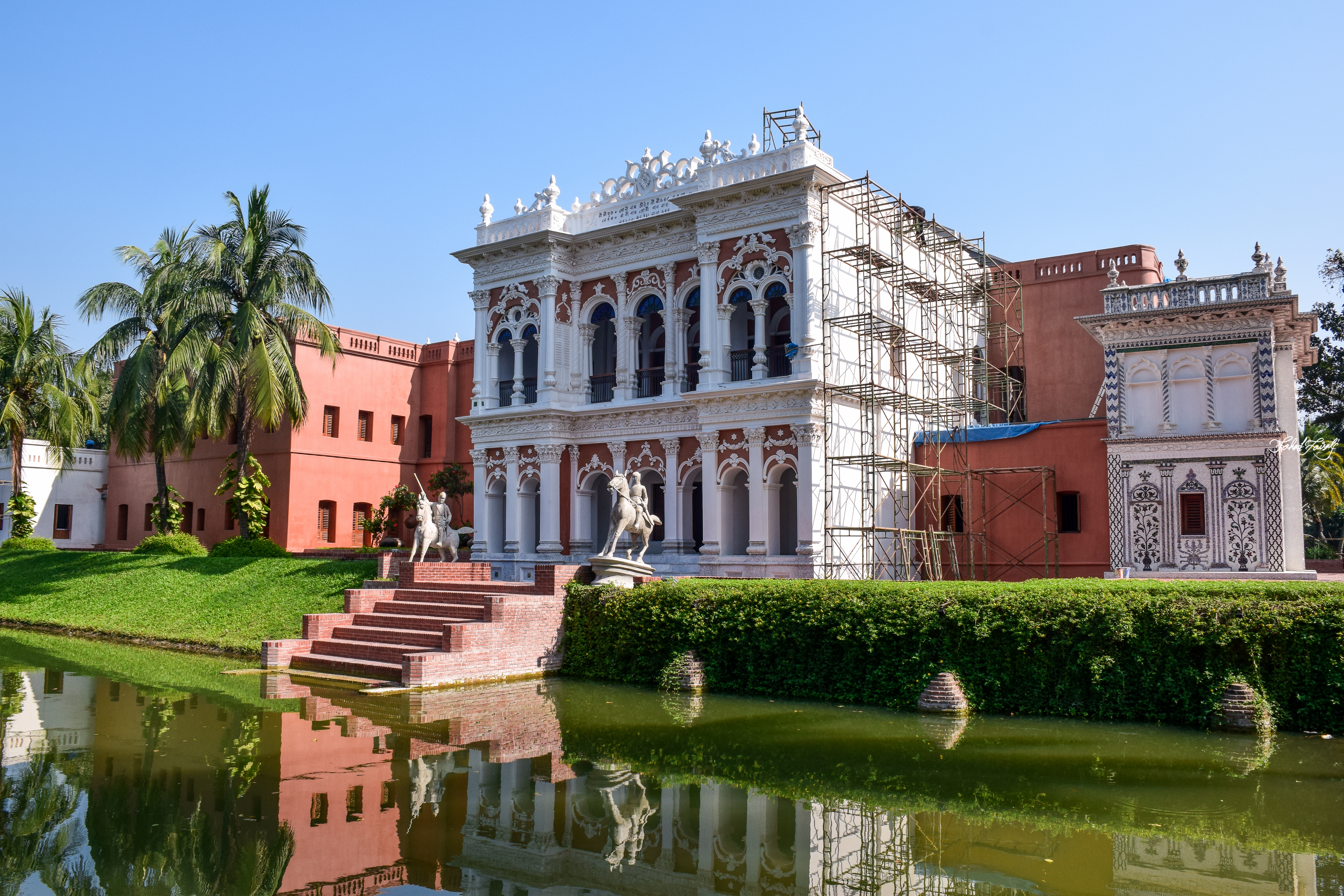 ঈশা খাঁর রাজধানী ছিল সোনারগাঁও, সেখানে আছে তাঁর প্রাসাদ